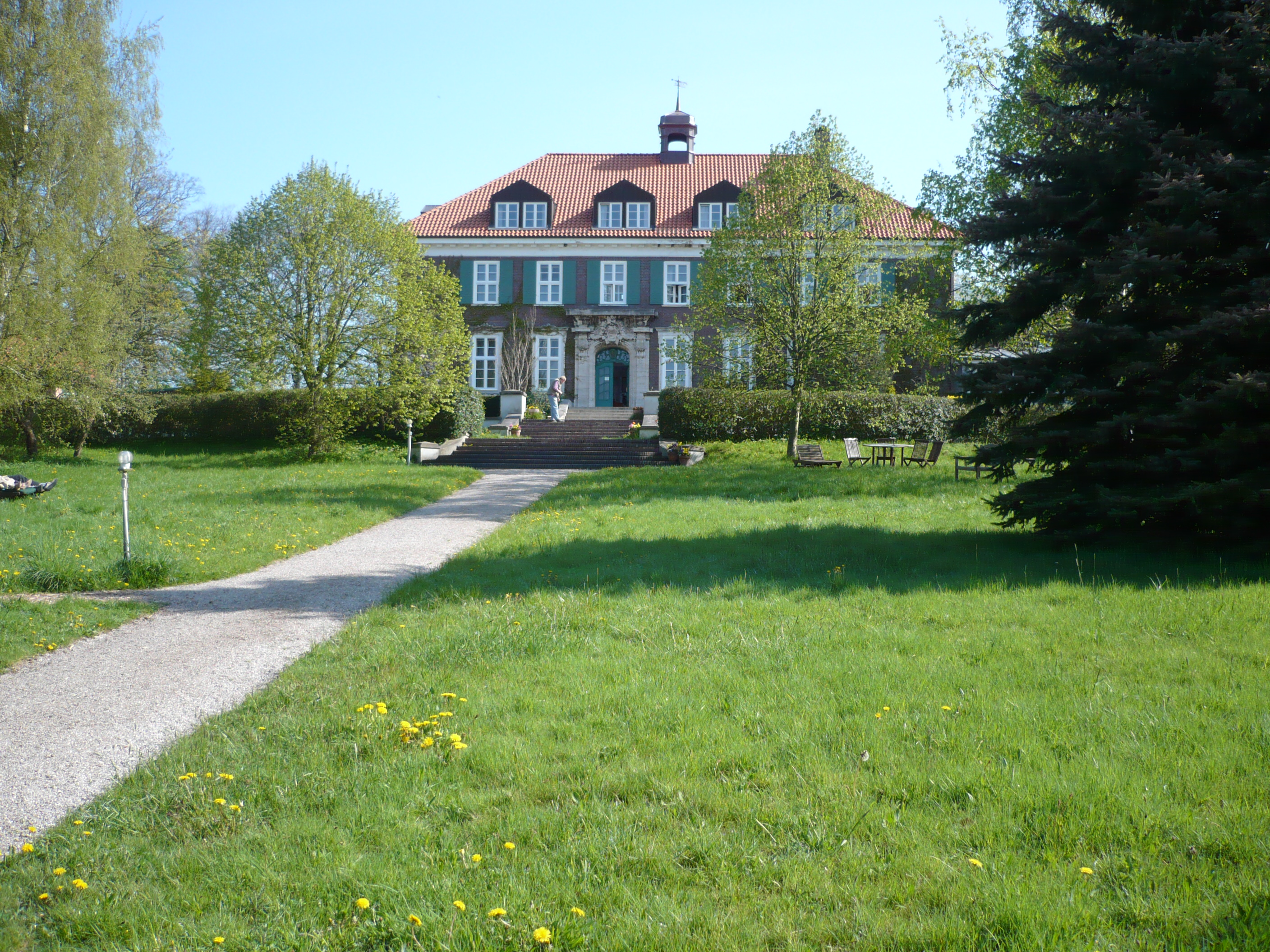 Manor house from Stellshagen